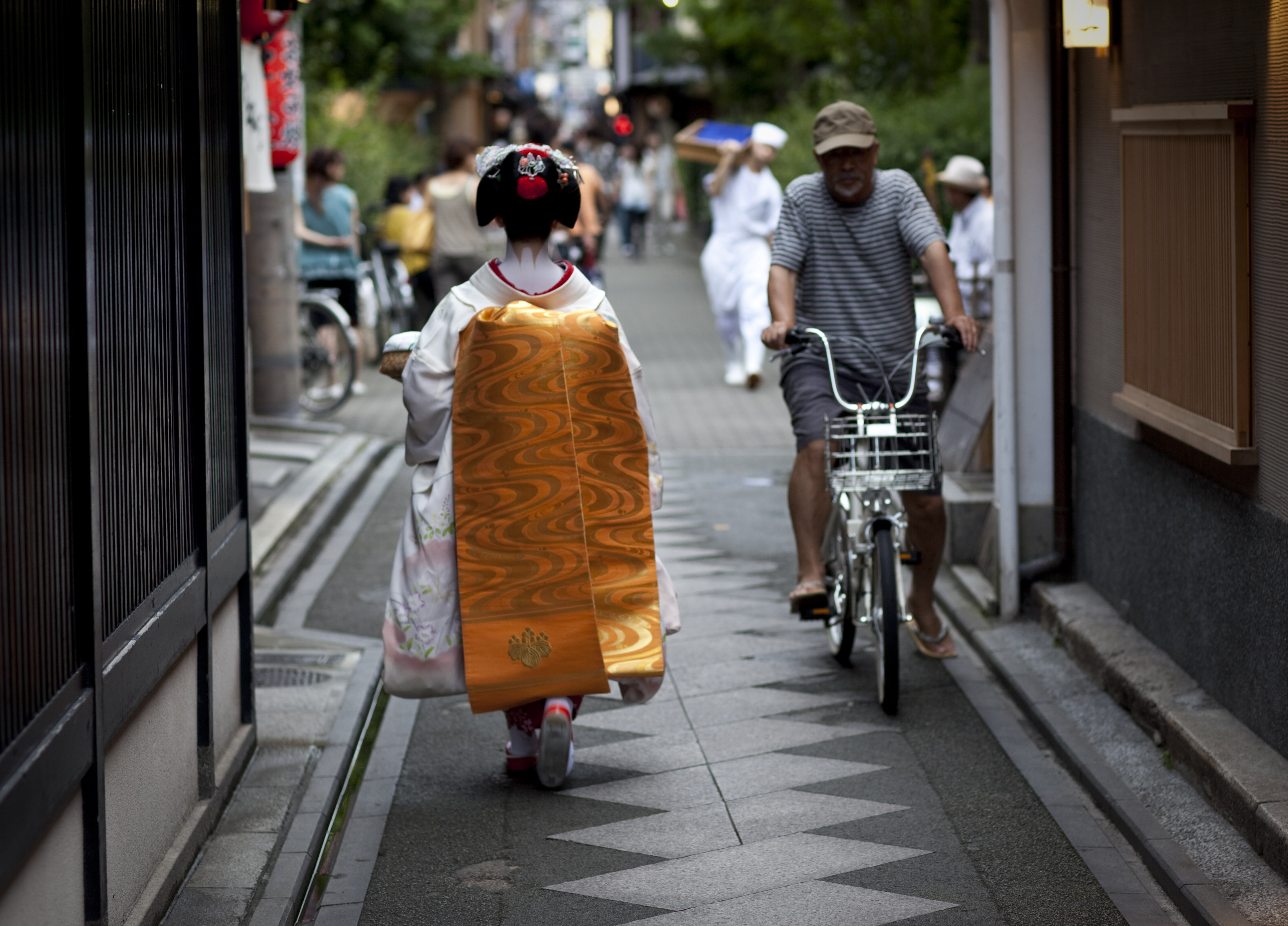 Maiko - Apprentice Geisha, on Pontochô street. Possibly from 多麻 (Tama) okiya.